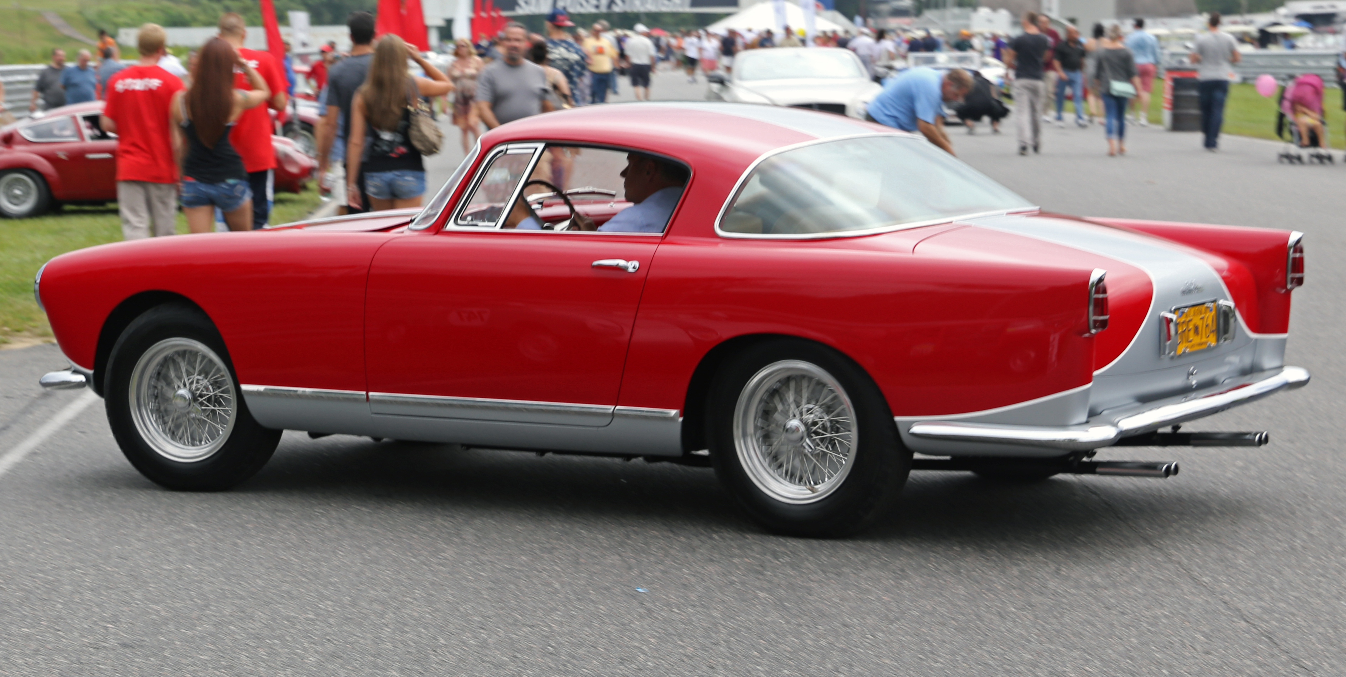 A 1955 Ferrari 250GT low-roof all alloy Berlinetta reversing onto the main straight at the 2014 Lime Rock Concours d'Élegance. Chassis number 0447 GT, this is one of the first nine of this Pininfarina design - six of which were built and lightly revised by Boano. It is one of fourteen total with alloy bodywork. It was delivered new to the director of Milan's La Scala opera, Maestro Guido Cantelli, who died only a few months later. The car went on to Luigi Chinetti in the US and has been part of various Ferrari collections since. While the chassis was built in 1955 (one of the first 100 Ferrari 250 GTs built), the bodywork was only completed on 30 July 1956.